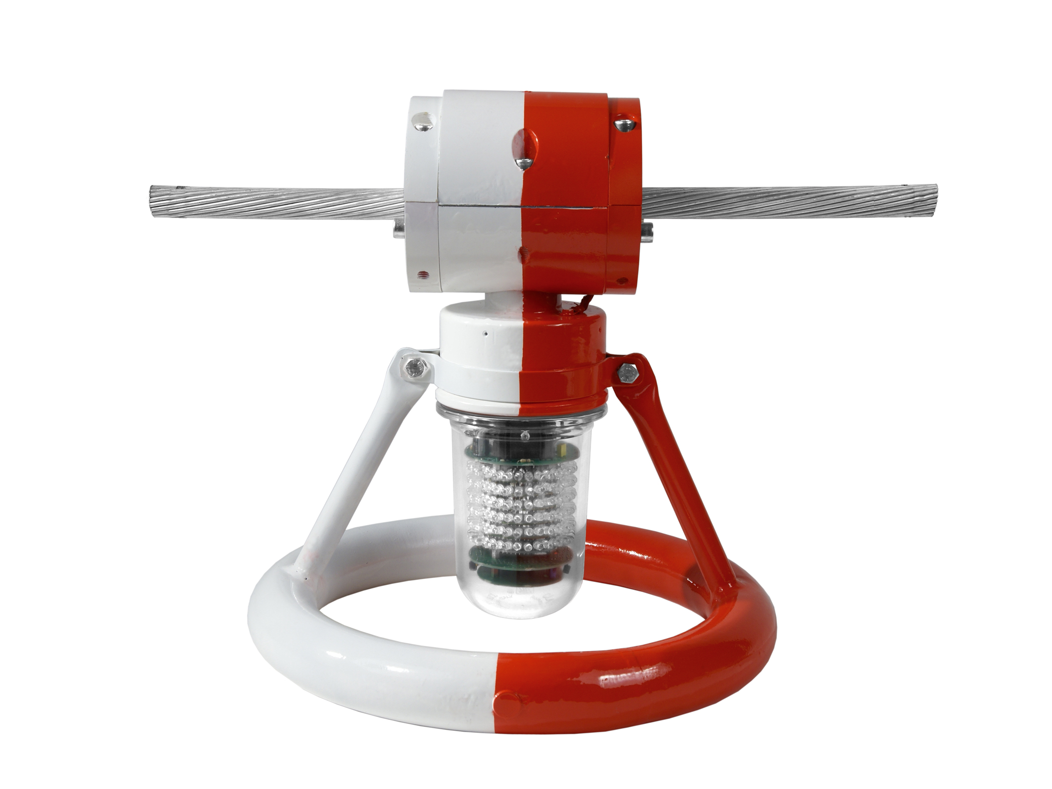 conductor marking